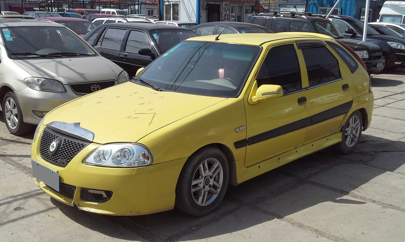 Shanghai Maple Haixun hatch photographed in Tianjin, China.